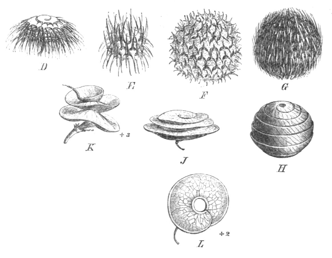 Illustration from book